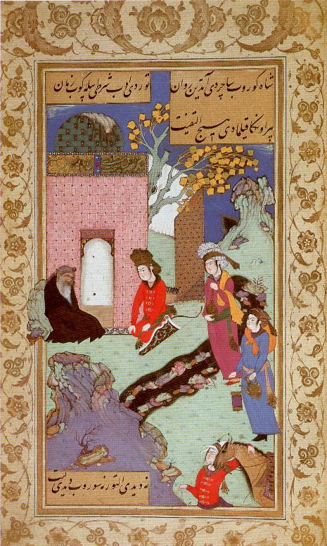 Visit to a dervish Makhzan al-Asrar-Nizami Ganjavi Safavid Isfahan, 1610.